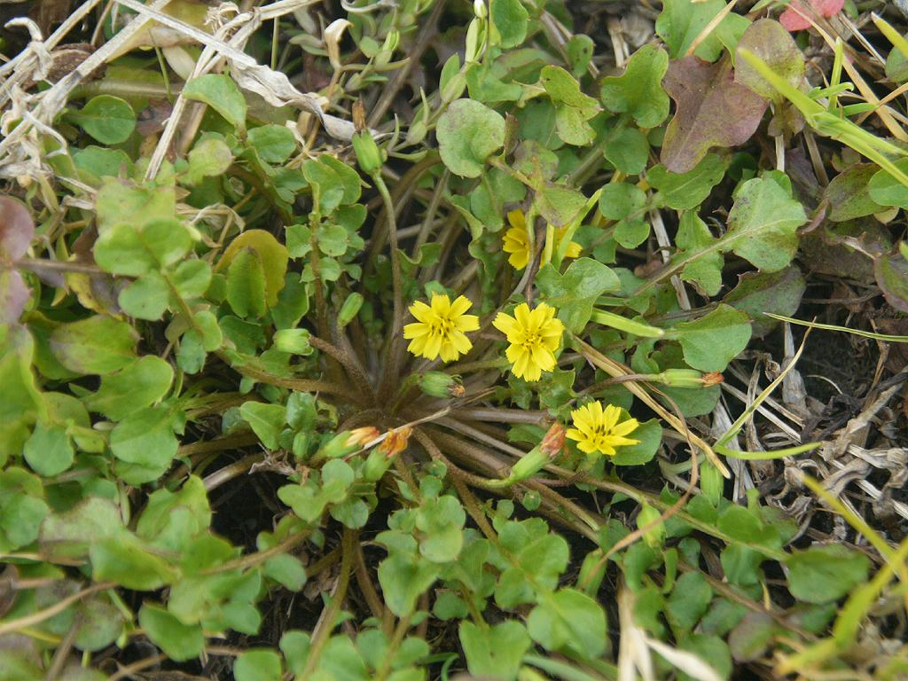 Lapsana apogonoides (Asteraceae) Japanese name: koonitabirako ：コオニタビラコ Date; 2009-02-15; Tanabe City, Wakayama prefecture, Japan Author; Keisotyo